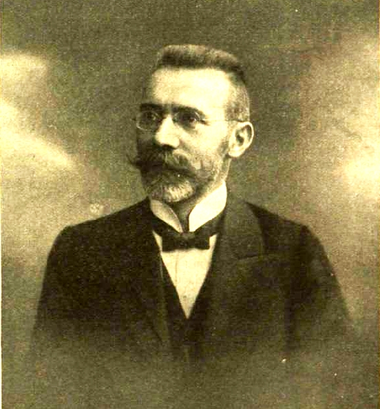 Portrait of Béla Kenessey